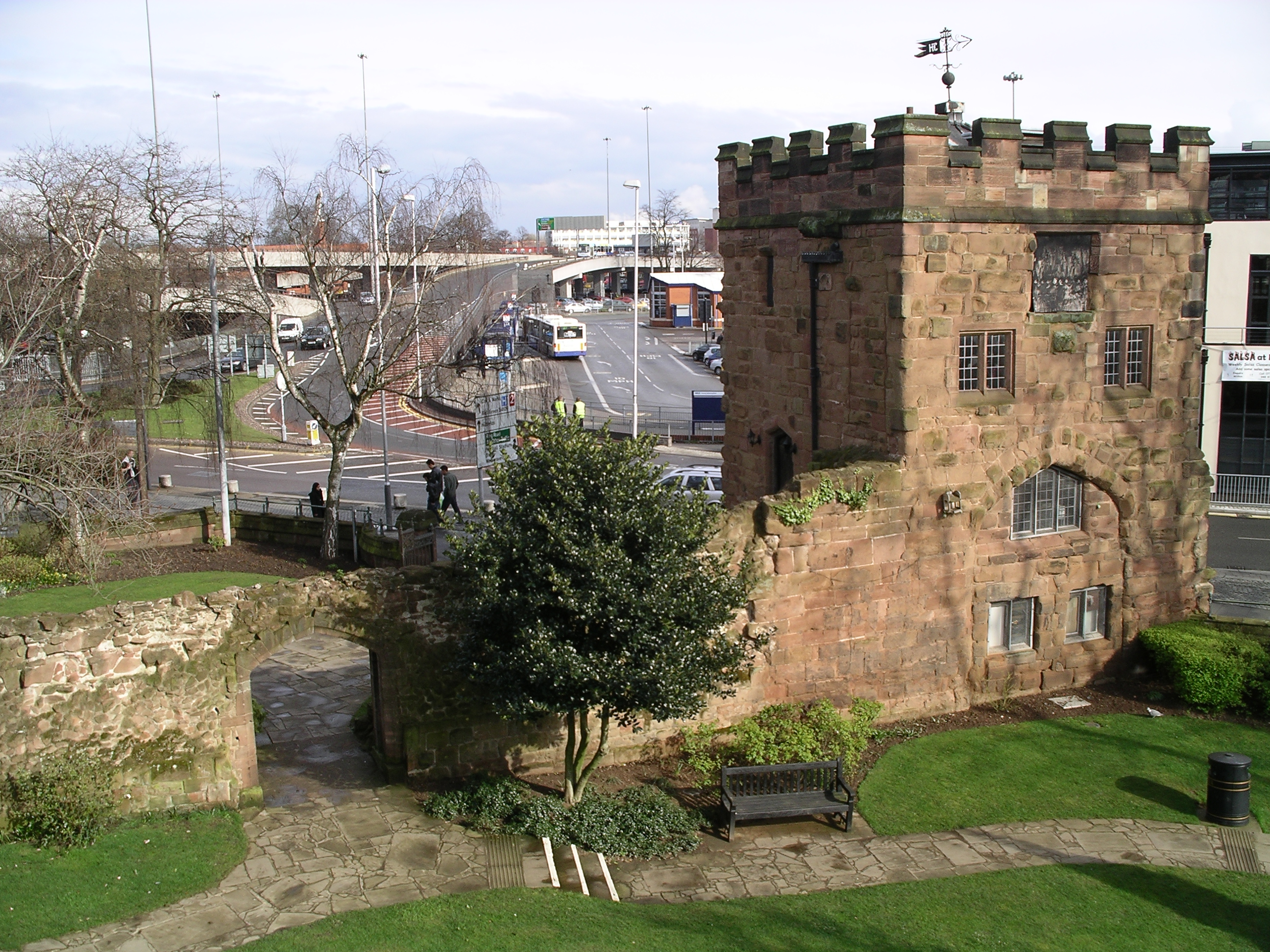 Swanswell Gate, Coventry, England. Photo taken from new elevated footbridge.